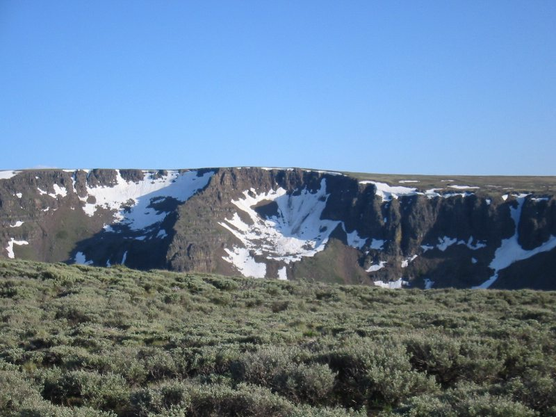 Little Blitzen Gorge, near the summit of Steens Mountain, in Harney County, Oregon, USA